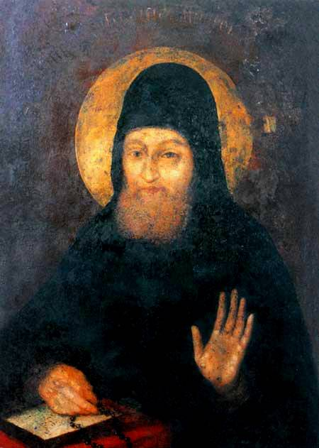 Saint Poemen (Pimen) the Muchsuffering, venerable monk at Kyiv Caves monastery, Kyiv, Ukraine. Orthodox saint from 12 century.